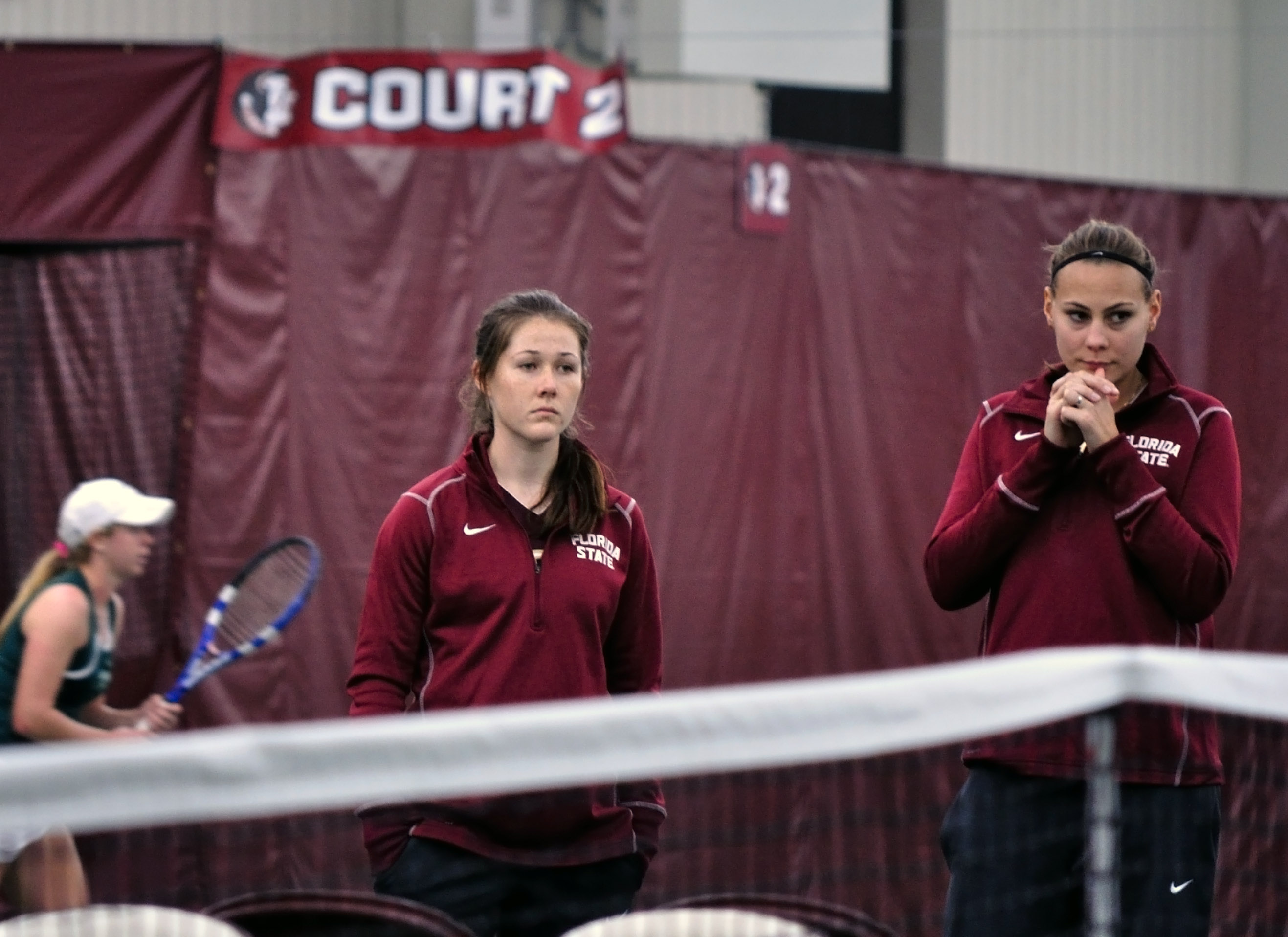 Emily Fanning and Majlena Pedersen of the Florida State Seminoles in 2014